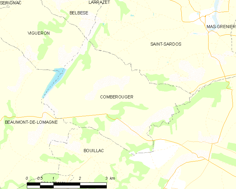 Map of French municipality Comberouger